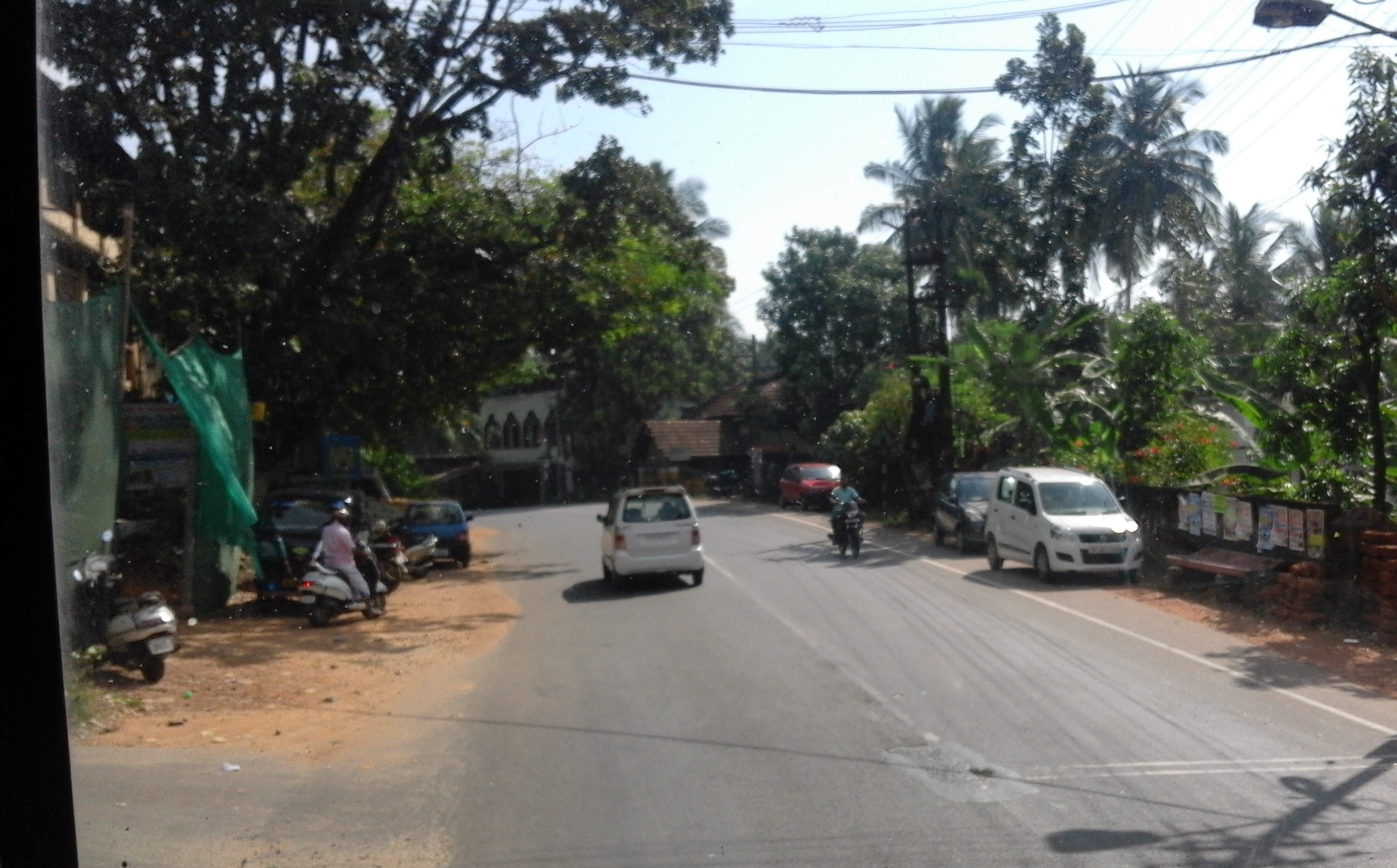 Musliyarangadi Town, Nediyiruppu Panchayath, Valluvalmbram, Malappuram Dt, Kerala India